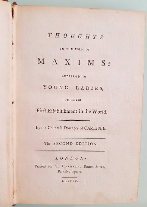 Title page of Isabella's 1789 etiquette guide.